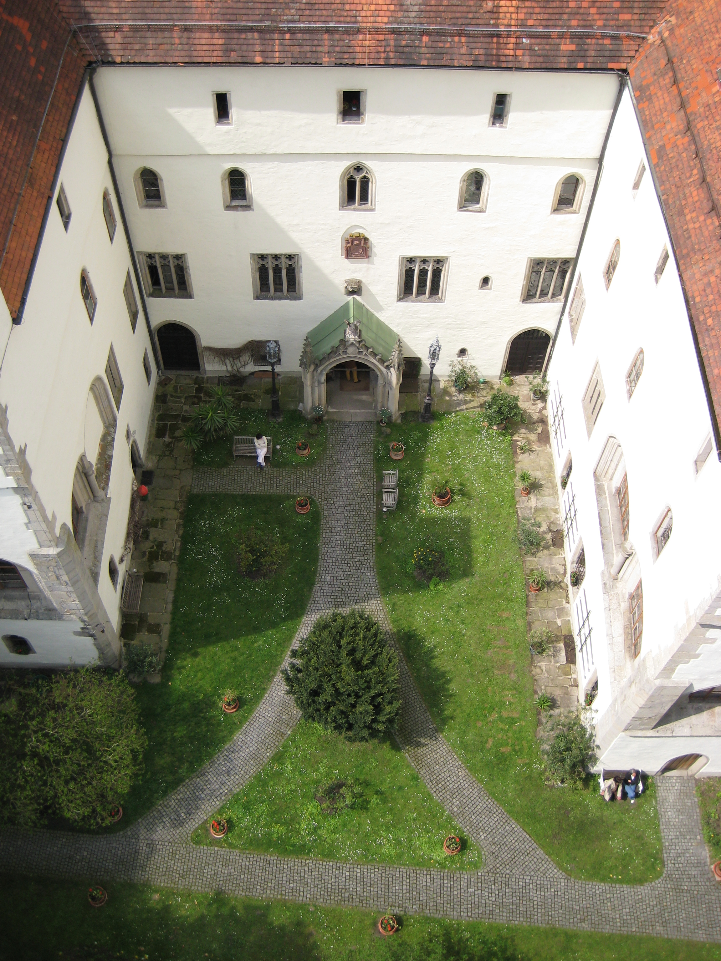 Castle Egg, district of Deggendorf, Lower Bavaria